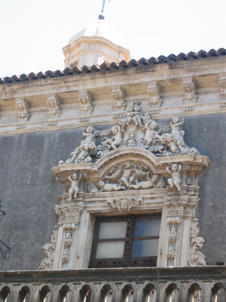 Catania - Palazzo Biscari. Picture by Urban, August 2005. Body: Canon Powershot A80.